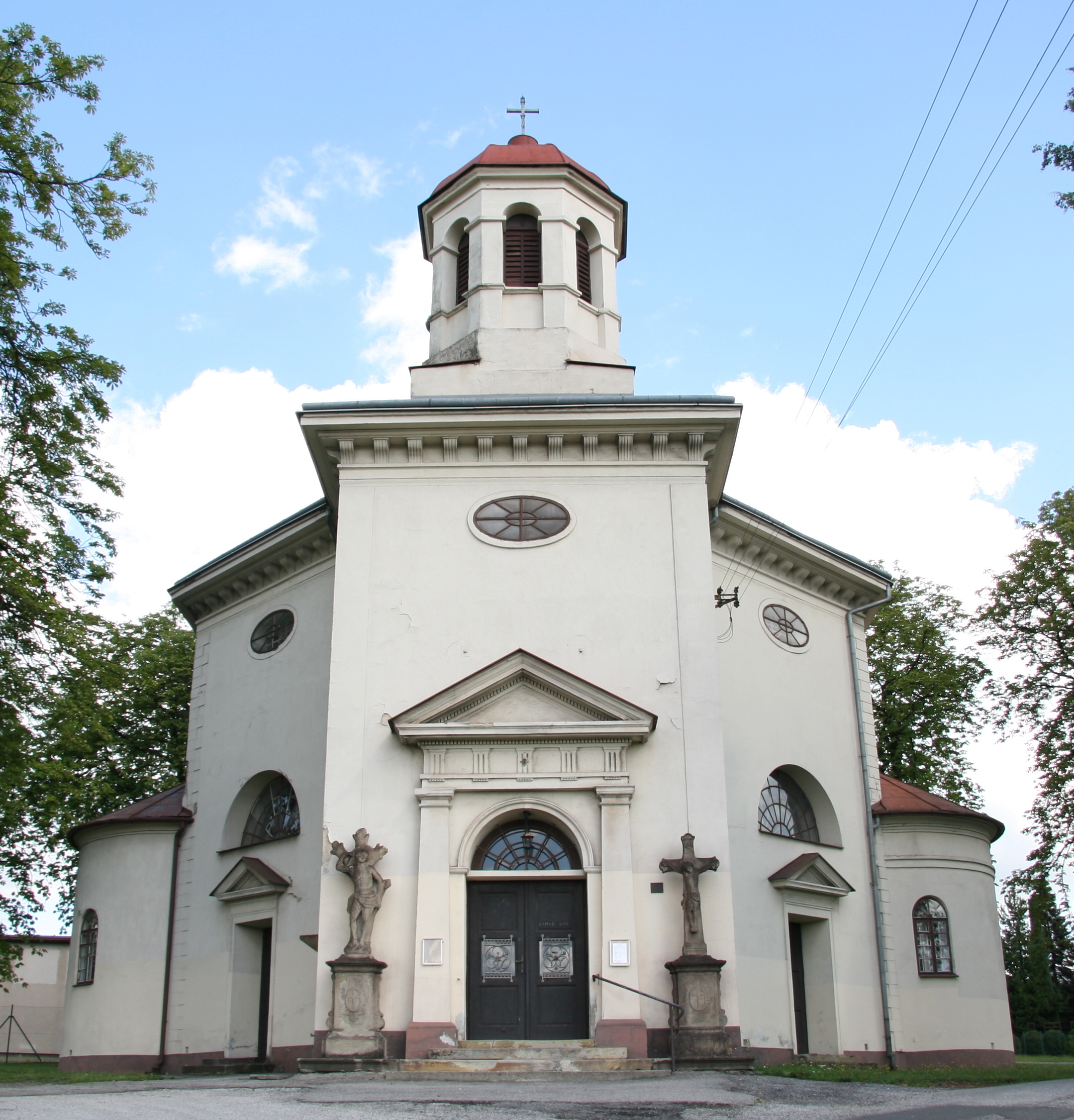 Church of Saint Henry in Peřvald. Karviná District, Moravian-Silesian Region, Czech Republic